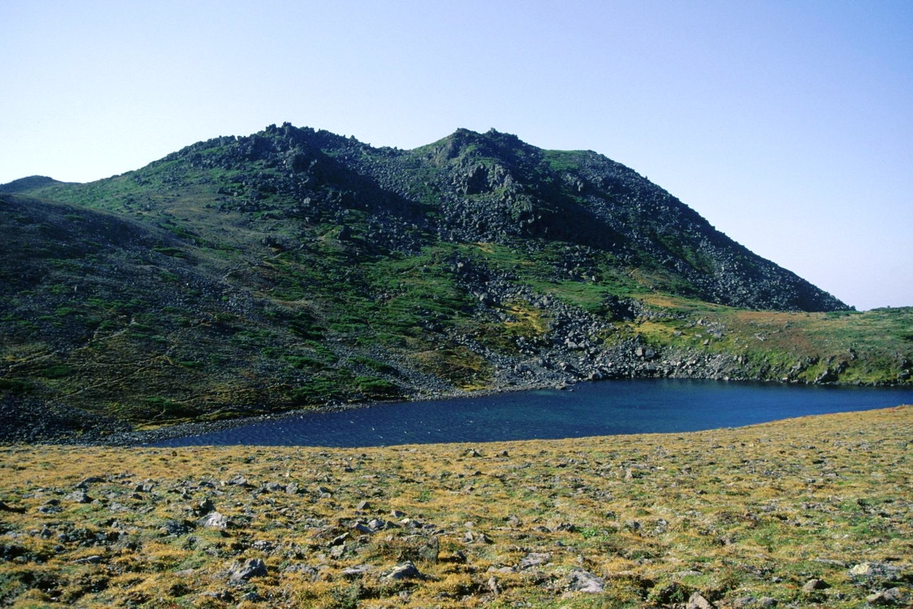 Tomuraushi_and_Kitanuma_2006-8-26